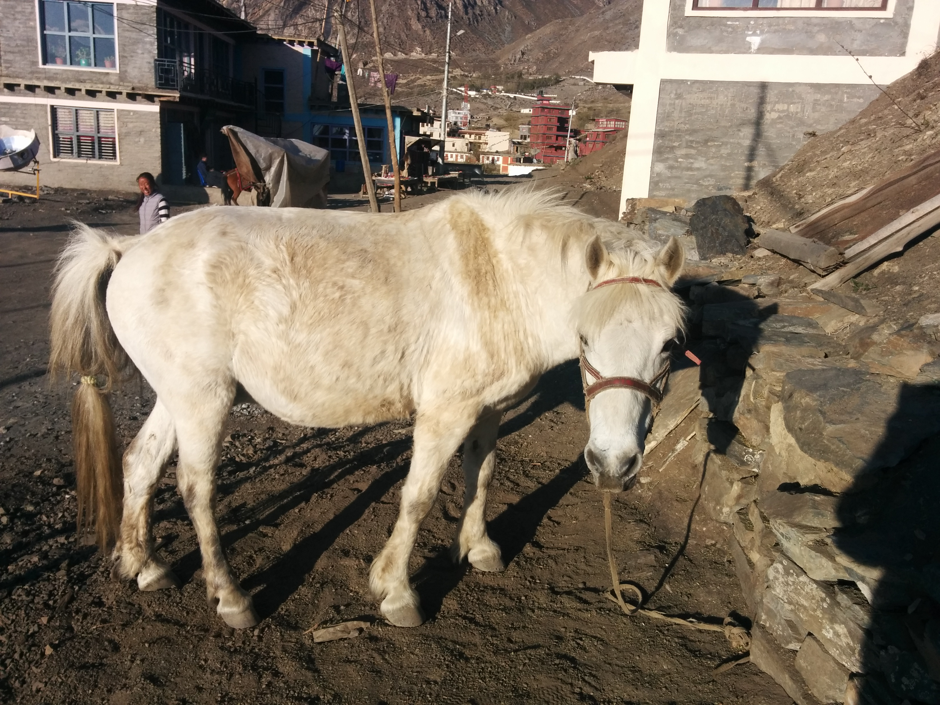 Horse not Mule